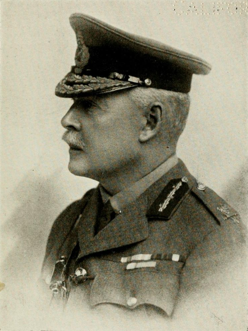 Original caption: "Major-General G. J. Cuthbert, CB, CMG, commanding 140th Infantry Brigade, 1914-1916". Photograph presumably made between 1916 (when promoted major-general) and 1919 (retirement).